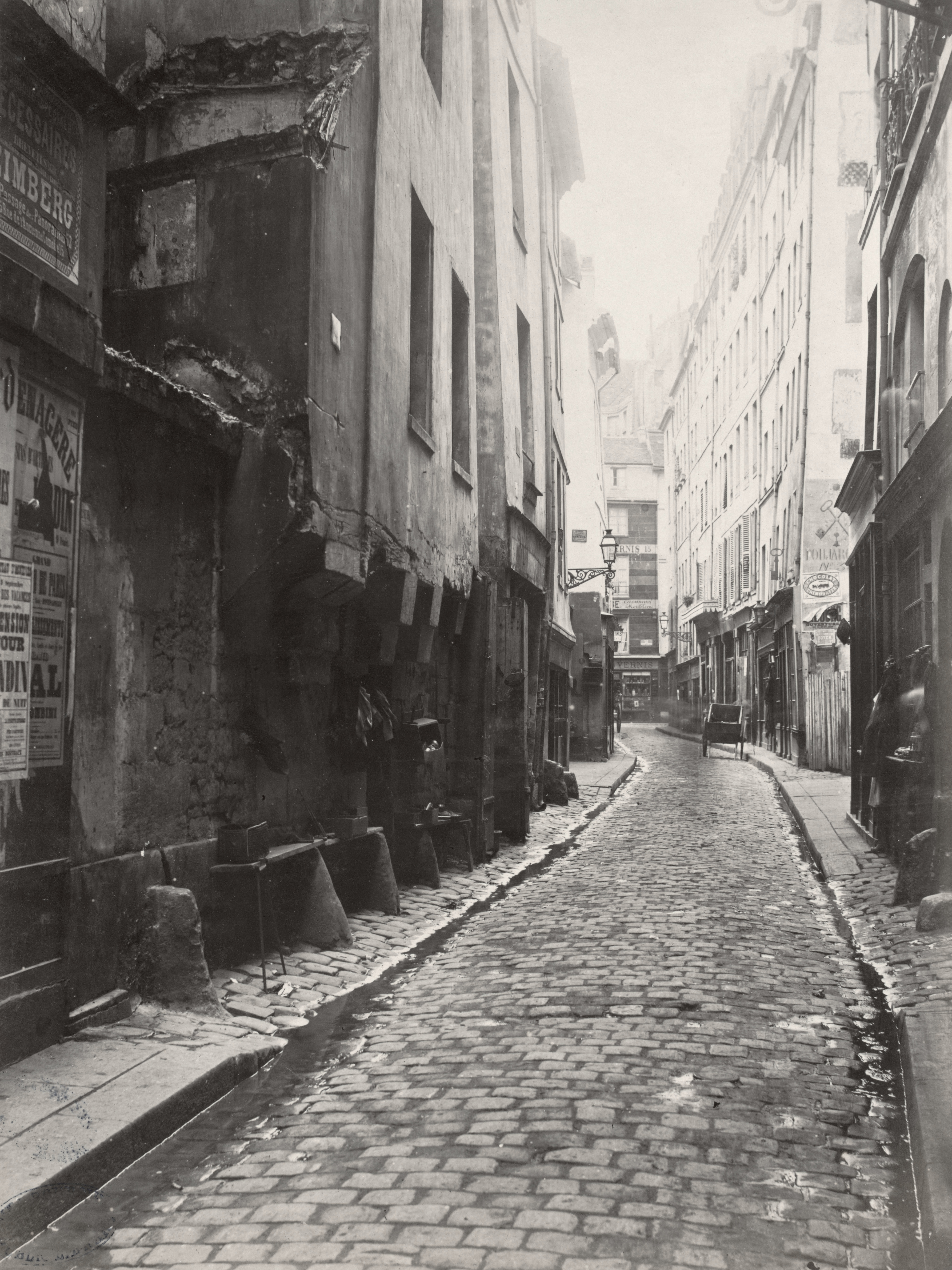 Looking along curving cobbled street, buildings opening onto narrow paths, posters on wall in left foreground, planks laid across buttresses with items placed on them.